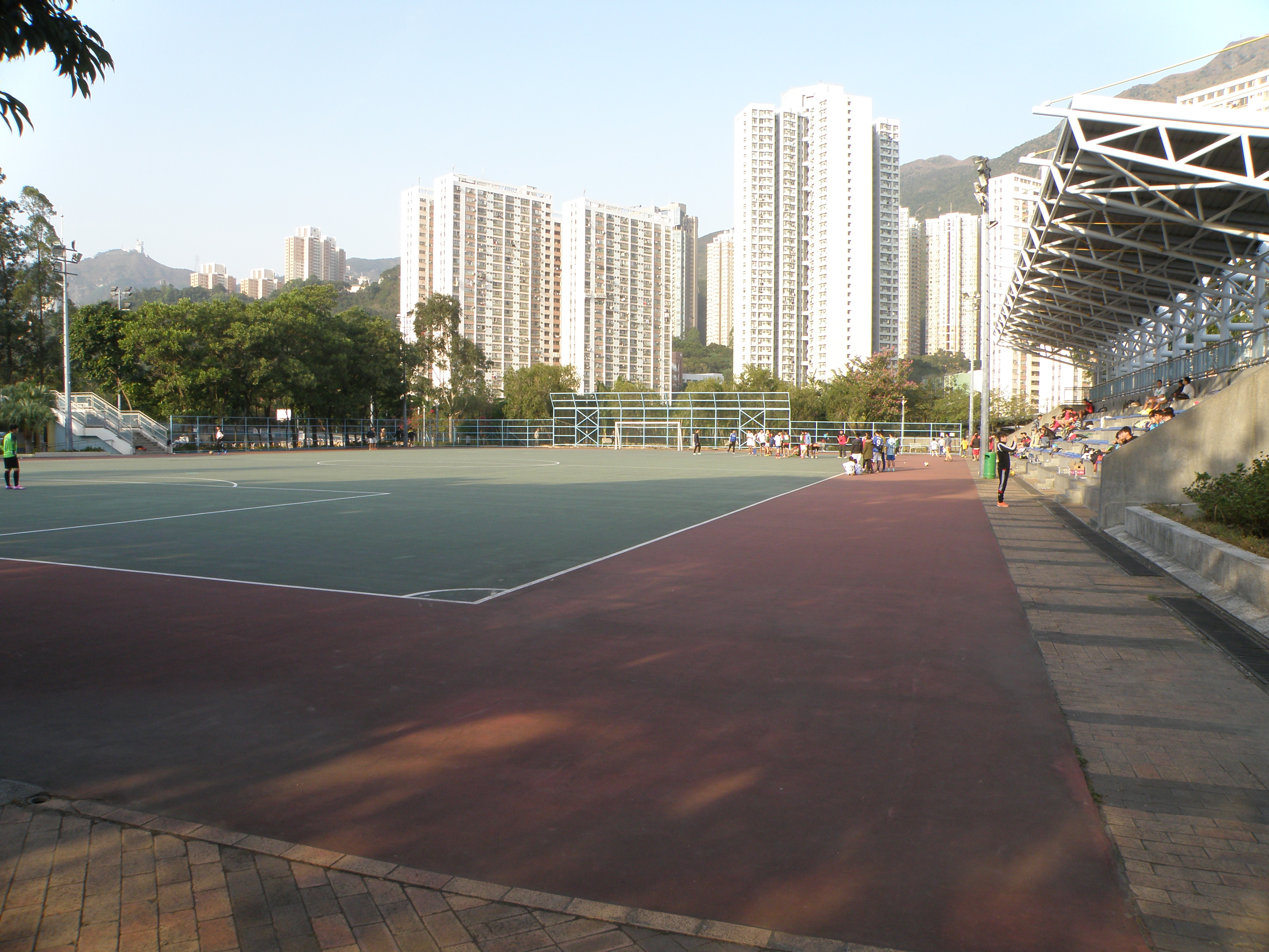 Ping Shek Playground in Ngau Chi Wan, Hong Kong.